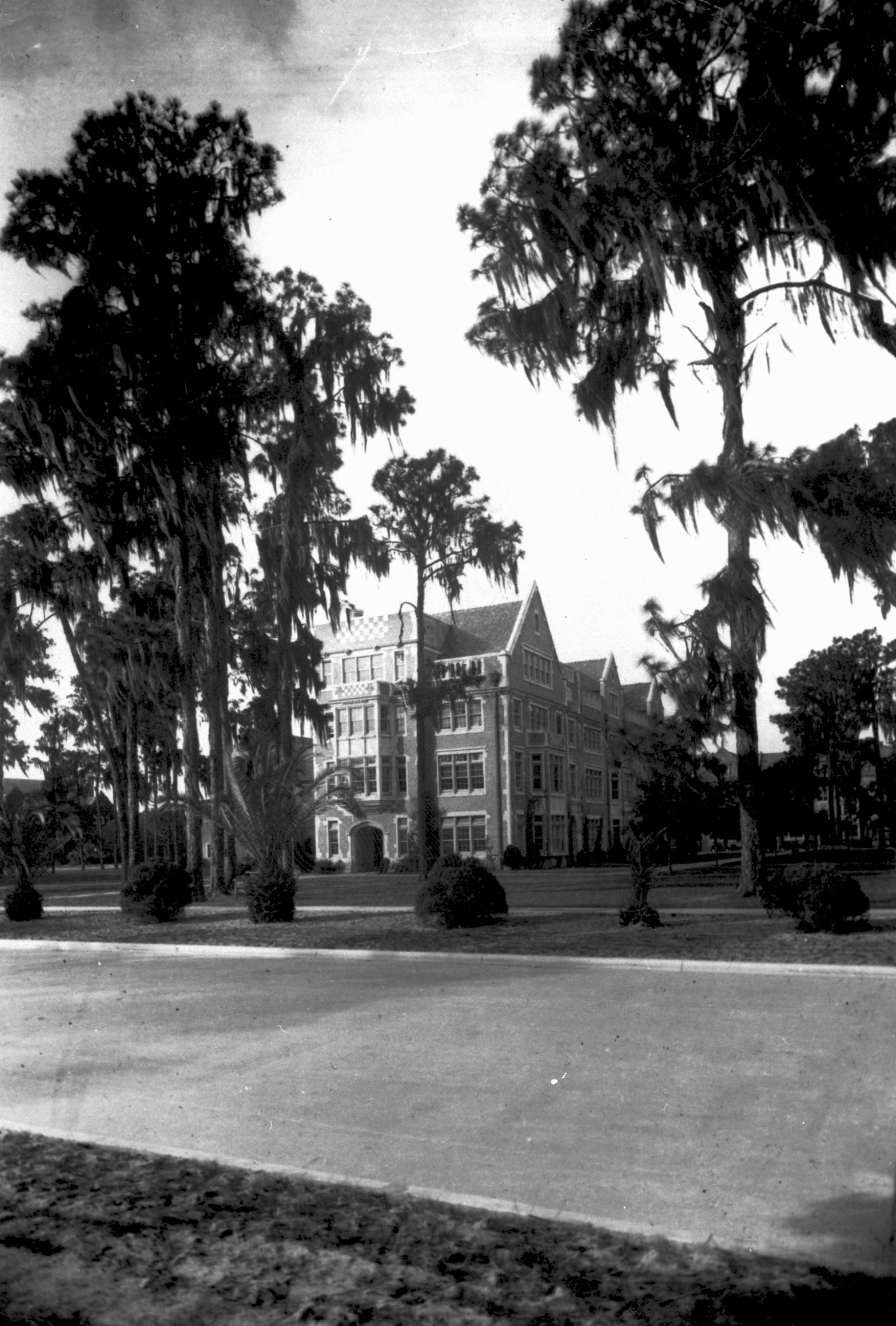 A historic photo of Leigh Hall